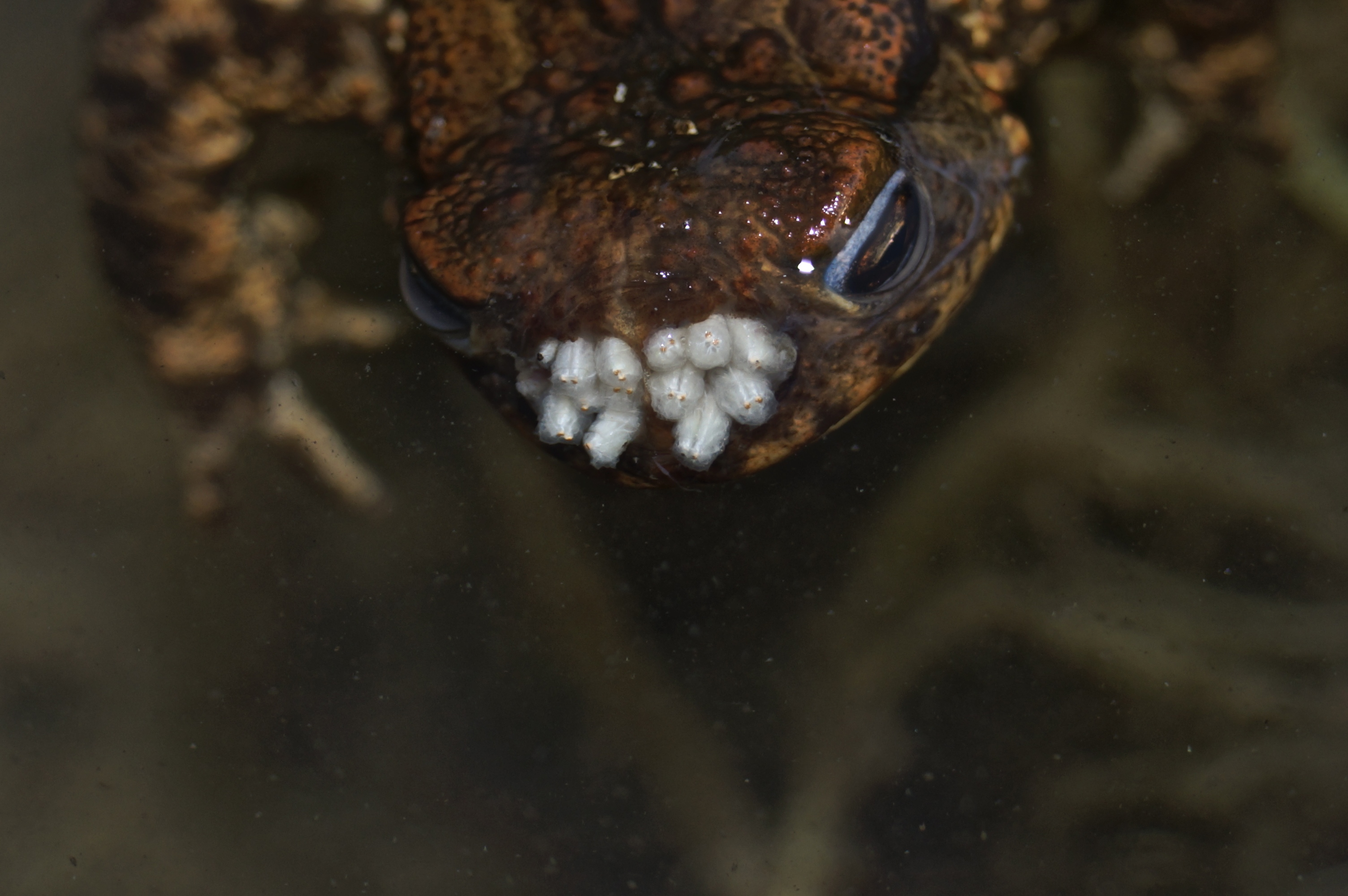 Toad underwater with Larvae of lucillia bufonivora, the nostrils of the toad have already been destroyed by the larvae. The toad did not have any survival instincts left when i found him, he was not afraid of anything and only rarely reacted to physical stimuli like touching or picking it up. It was however still breathing.